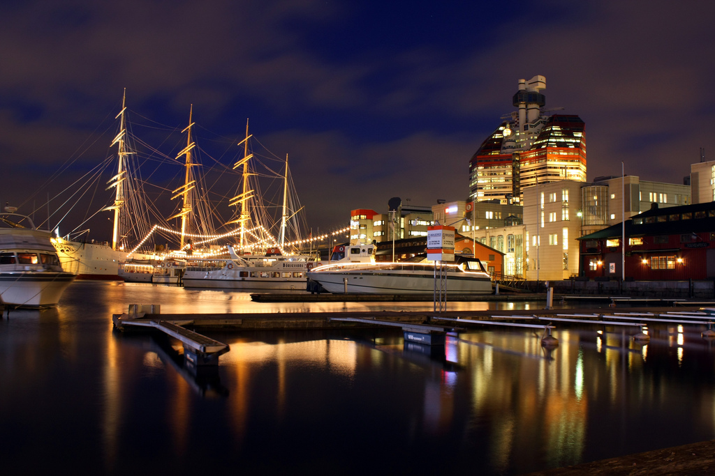 The marina Lilla Bommen in Gotheburg, Sweden.